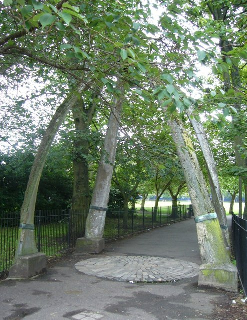 Jawbone Arch, Meadows Arch formed by the jawbones of a whale, donated to Edinburgh by the Zetland and Faroe Isles stand after the Great Exhibition of 1886, held in the Meadows.